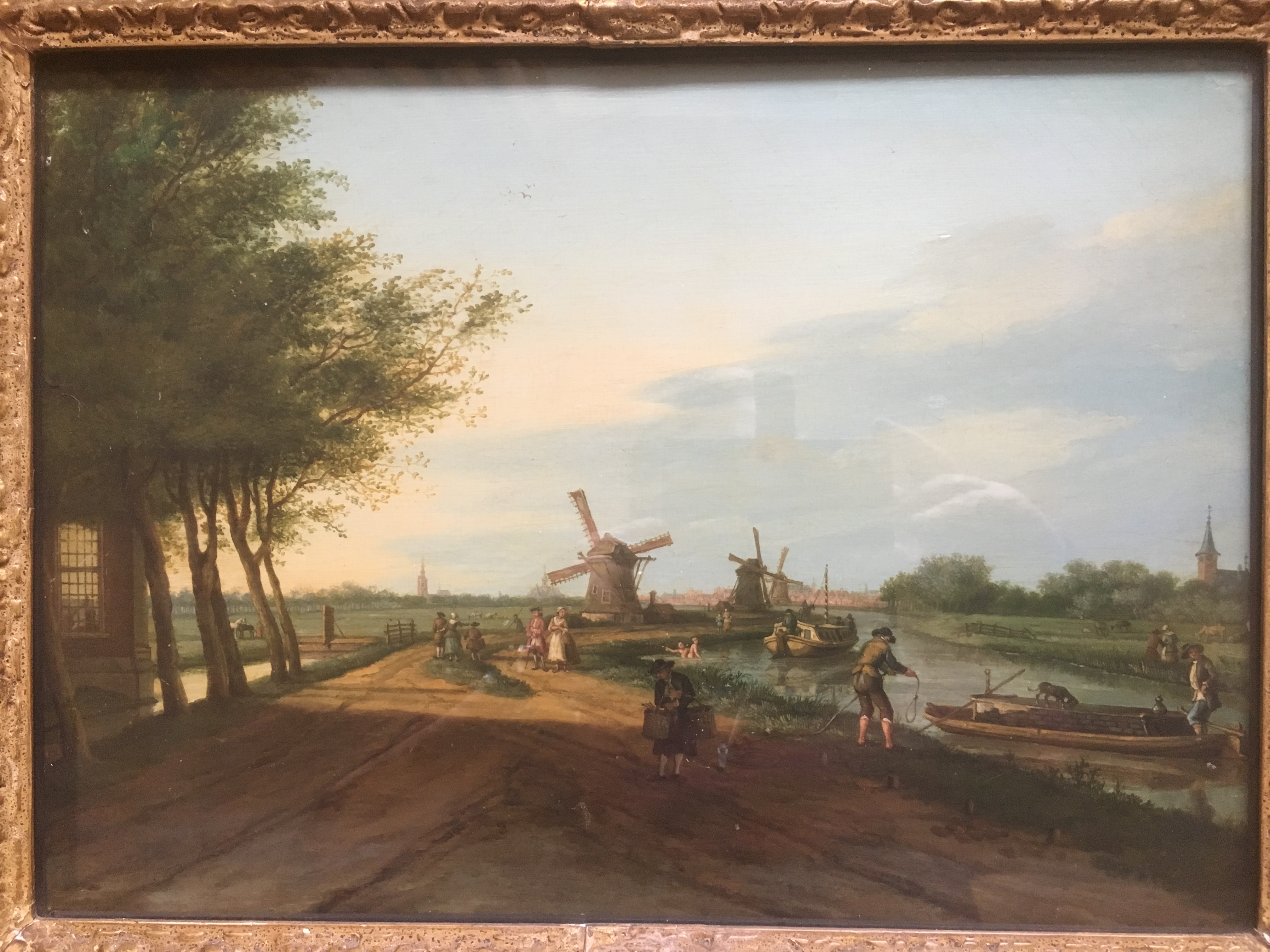 The Theekoepel on the left. The Cromvlietkade tow path. The Mills: Broekslootmolen, The Laakmolen and the Oude Veenmolen. On the right, Castle de Binckhorst. In the distance the Great Sint-Jacobskerk, the Nieuwe Kerk and the Ridderzaal are visible.